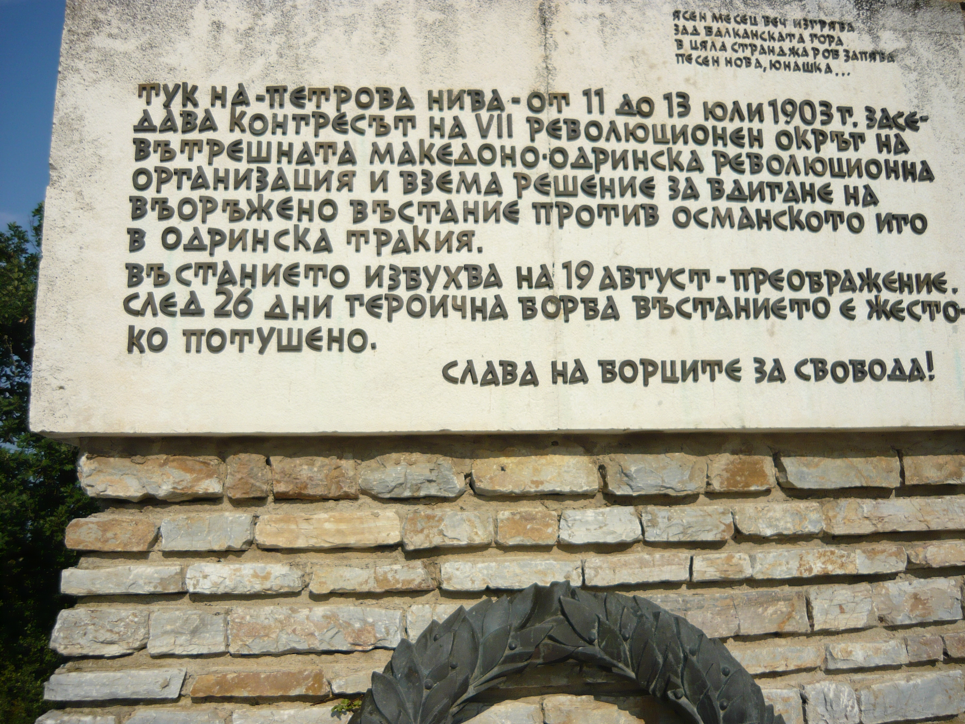 Memorial of Petrova niva